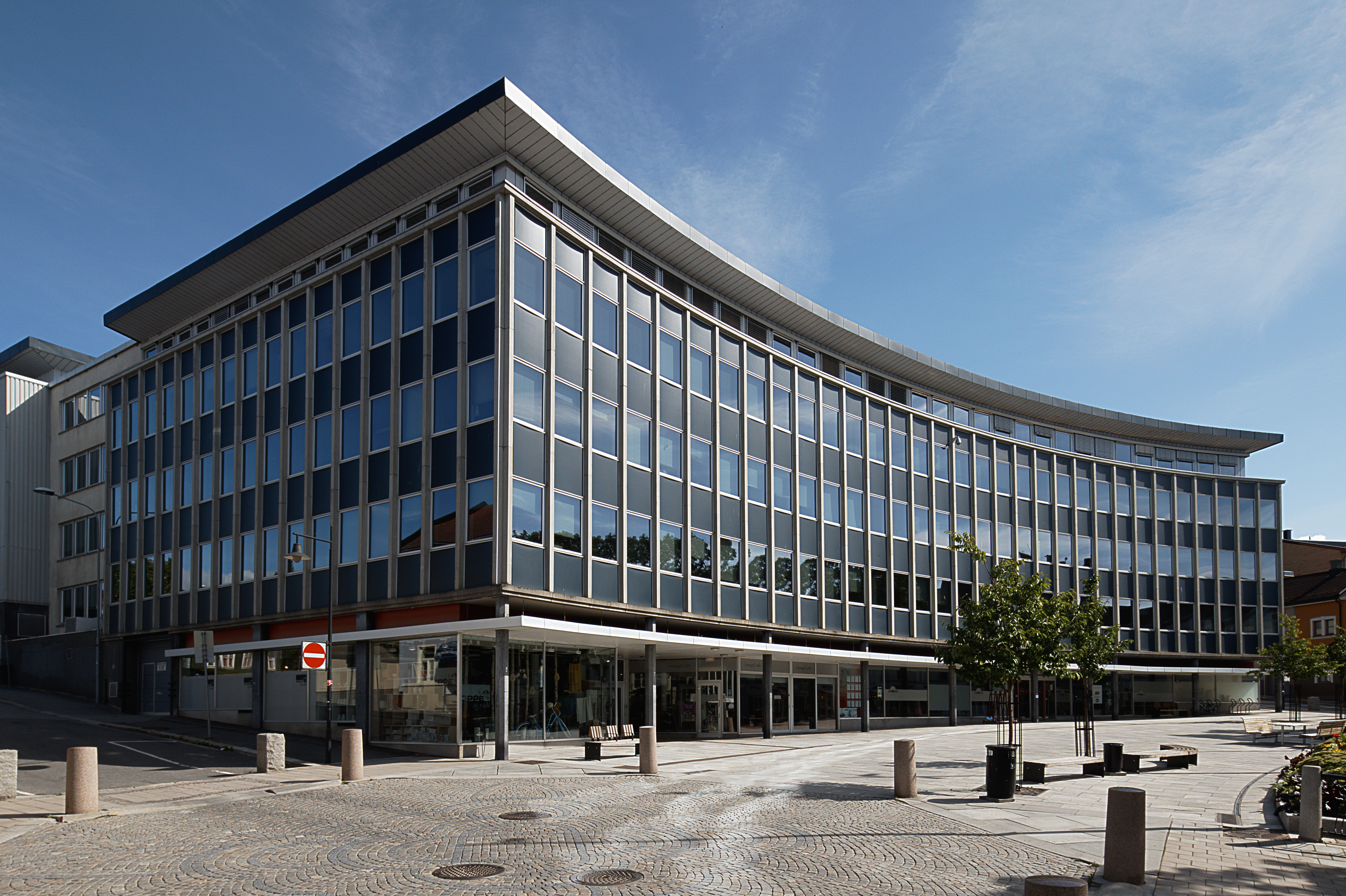 The Triangelbuilding. Hamar 2014